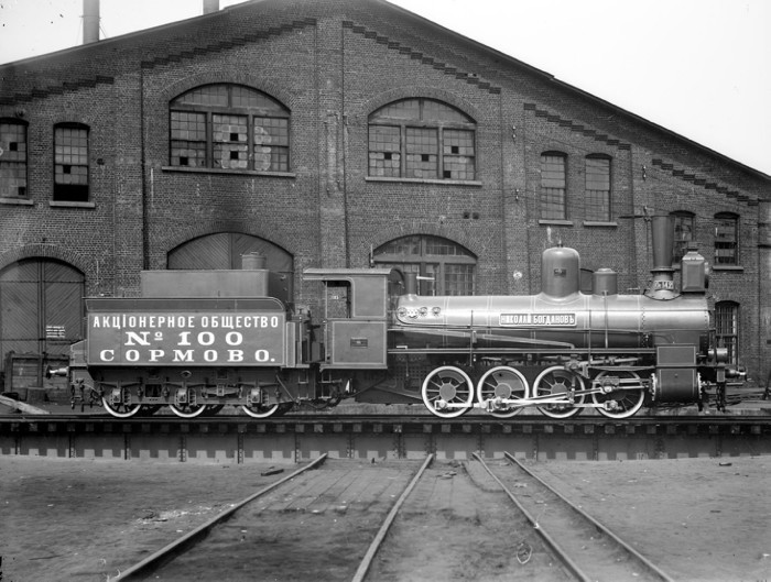 Locomotive OD class - 100th made at Krasnoye Sormovo